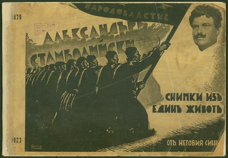 Album "Alexander Stamboliiski. Photos of a Lifetime. By his son", dedicated to Aleksandar Stambolijski.